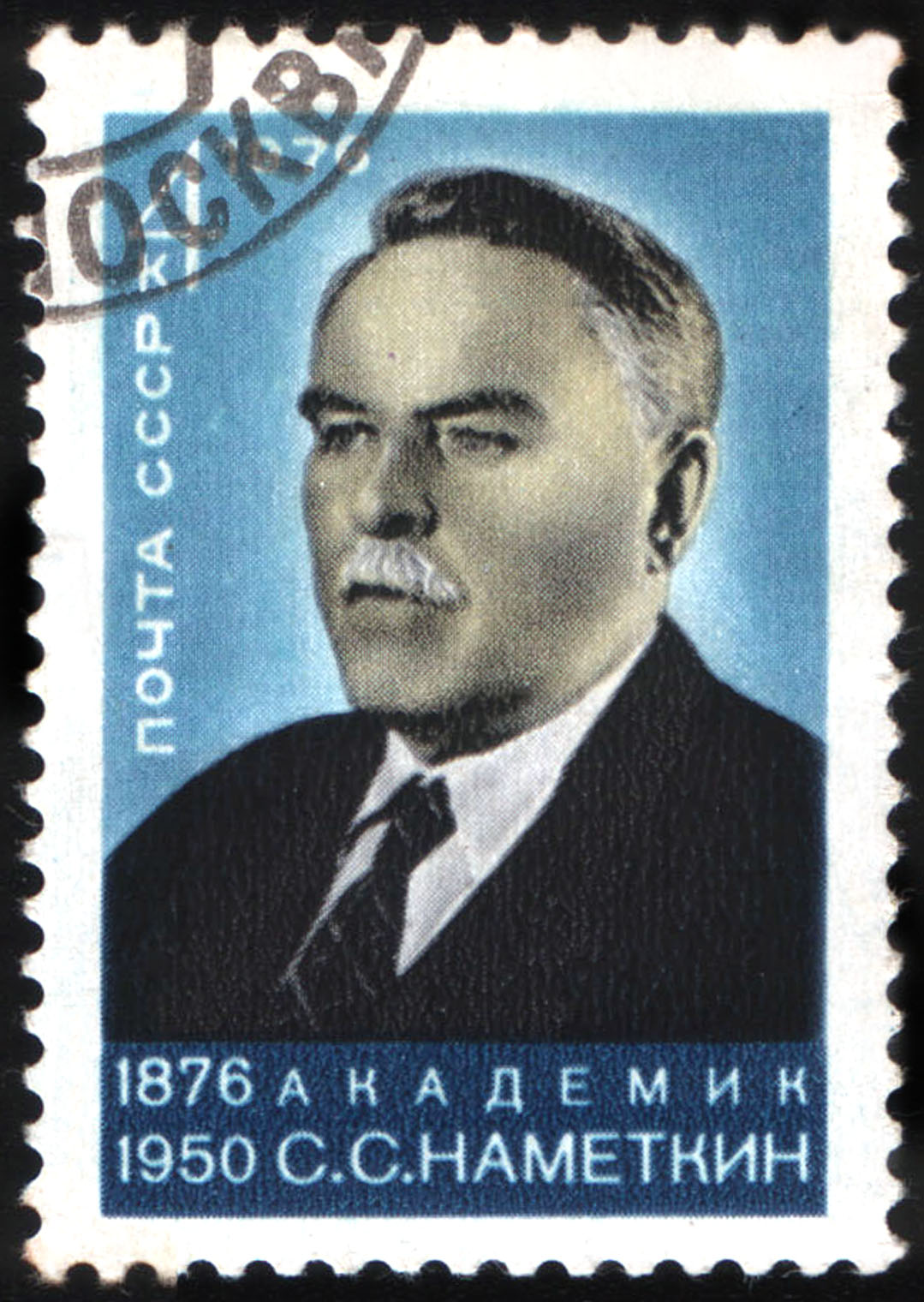 USSR stamp, S. S. Nametkin, 1976, 4 k.